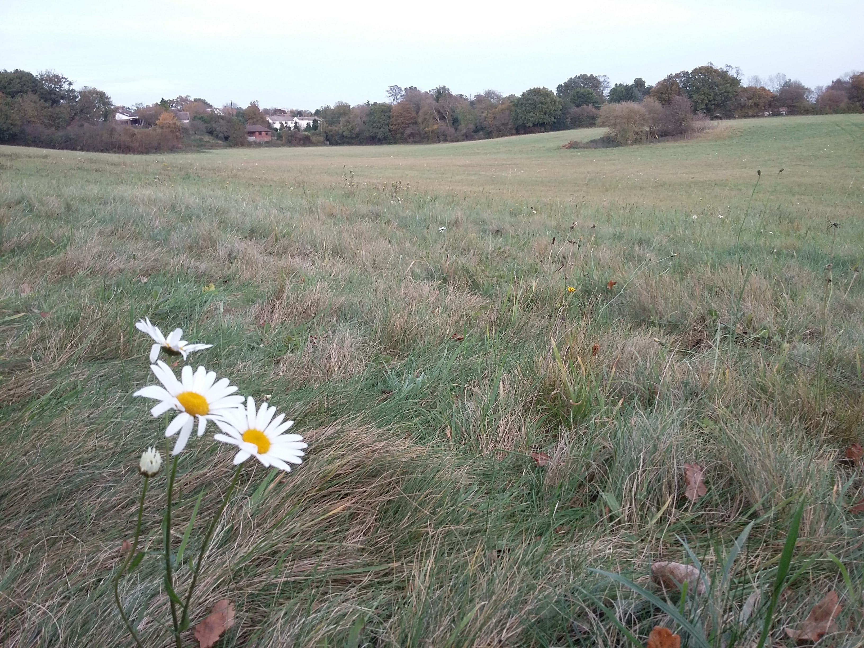 Taken from the footpath off Tredegar Road